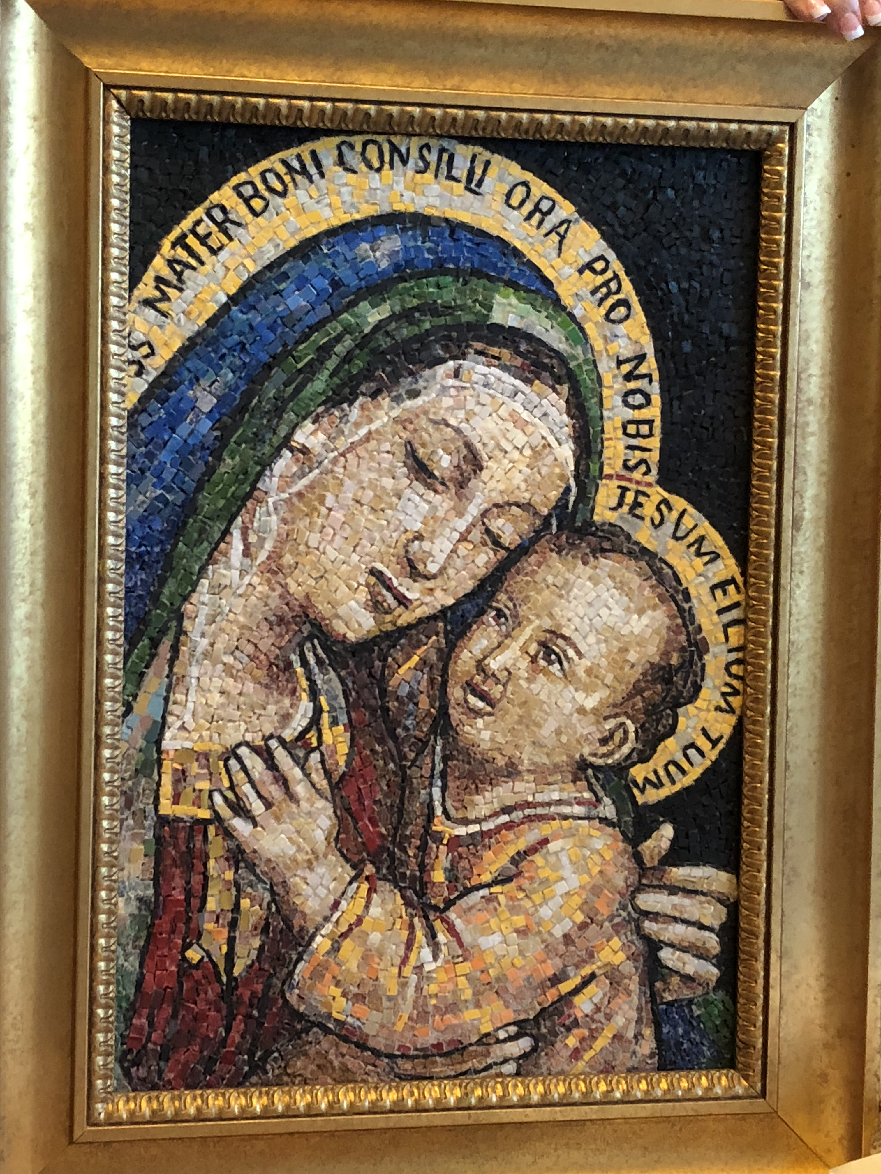 Madonna di Buon Consiglio Mosaic by Nunzio Monticelli, 20th century.